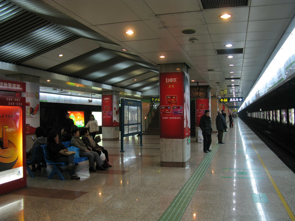 Line 2 Platform of West Nanjing Road Station